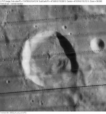 Monge lunar crater - image LO-IV-060 The 9-km crater on the right is Cook G (and a small piece of Cook itself is visible in the extreme upper right).